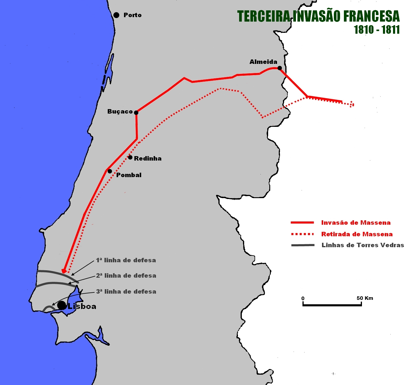 Map containing the route of the army of Massena for the Third French Invasion of Portugal.